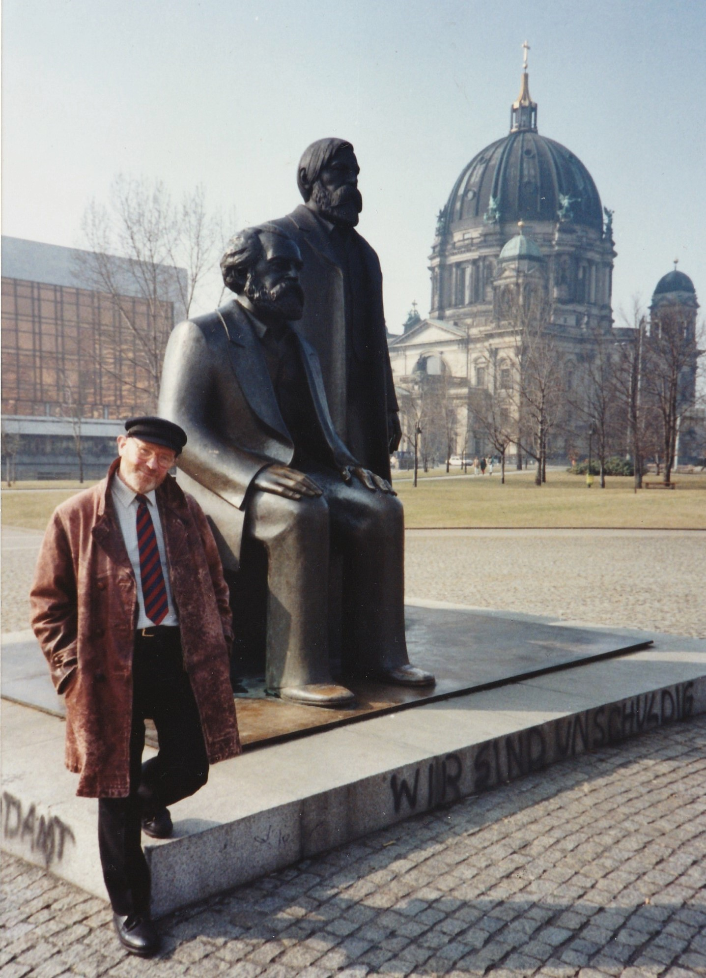 Picture of Paul Oestreicher with the statue of Marx and Engels in front of Berlin Cathedral, 1991.